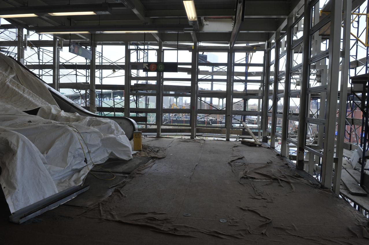 Construction work continues at the Smith-9th Sts. station in Brooklyn on Thursday, March 21, 2013. The world's highest subway station is set to re-open after a two-year rehabilitation project that brought a ground up renewal to the 79-year old facility. Trains will begin making regular stops at the station the week of April 22, 2013. Photo: MTA New York City Transit / Marc A. Hermann